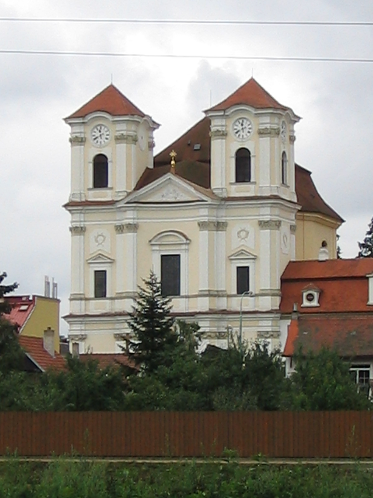 Holy Guardian Angels church in Veselí nad Moravou, Czech Republic.